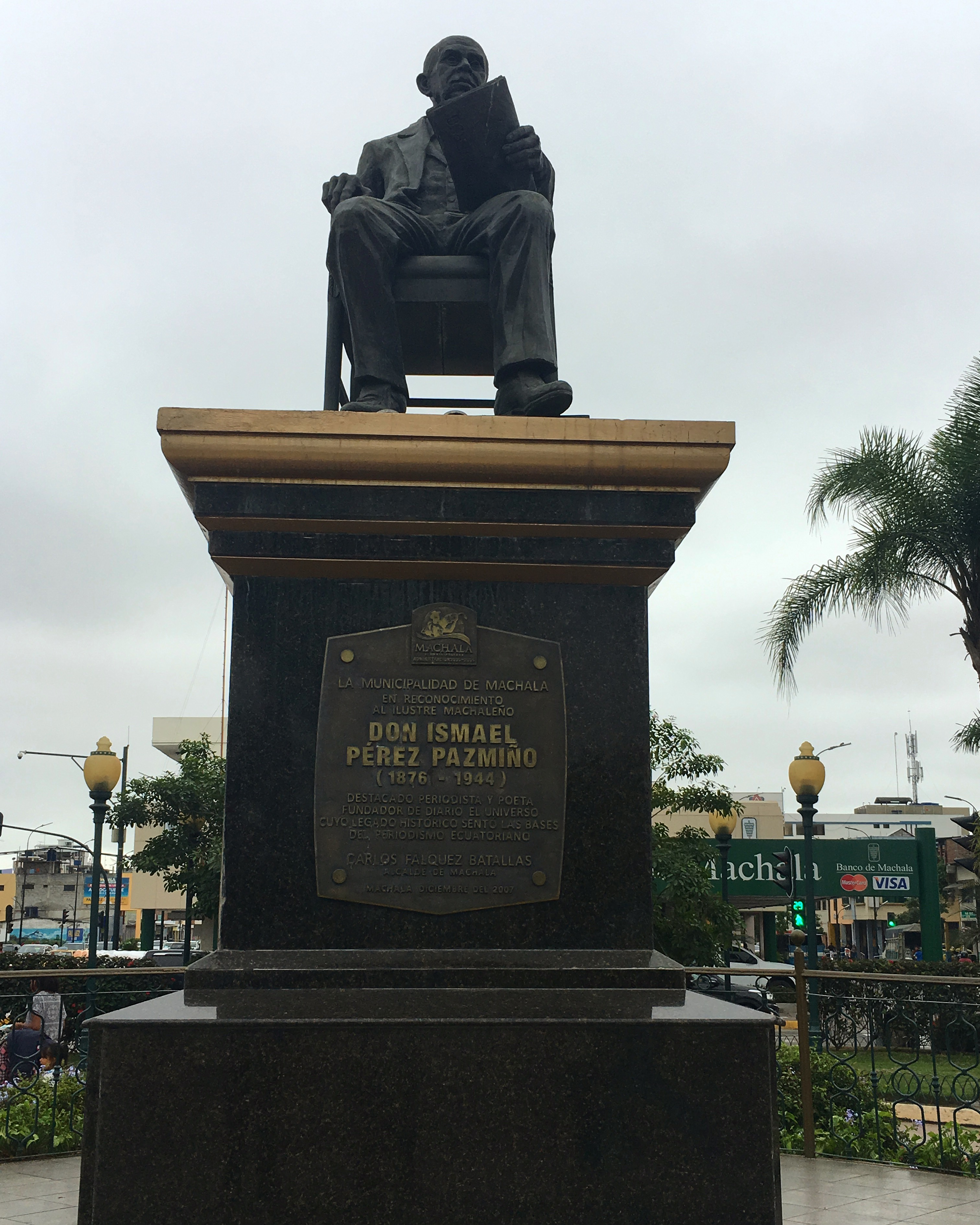 Monumento en honor al escritor y periodista Ismael Pérez Pazmiño, fundador de Diario El Universo